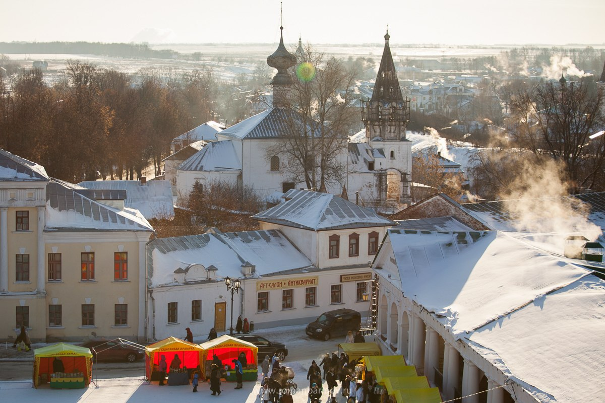 Centre of Suzdal in winter